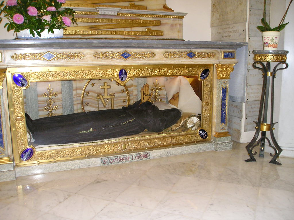 Chapelle de la Médaille Miraculeuse, glass coffin of St Catherine Labouré